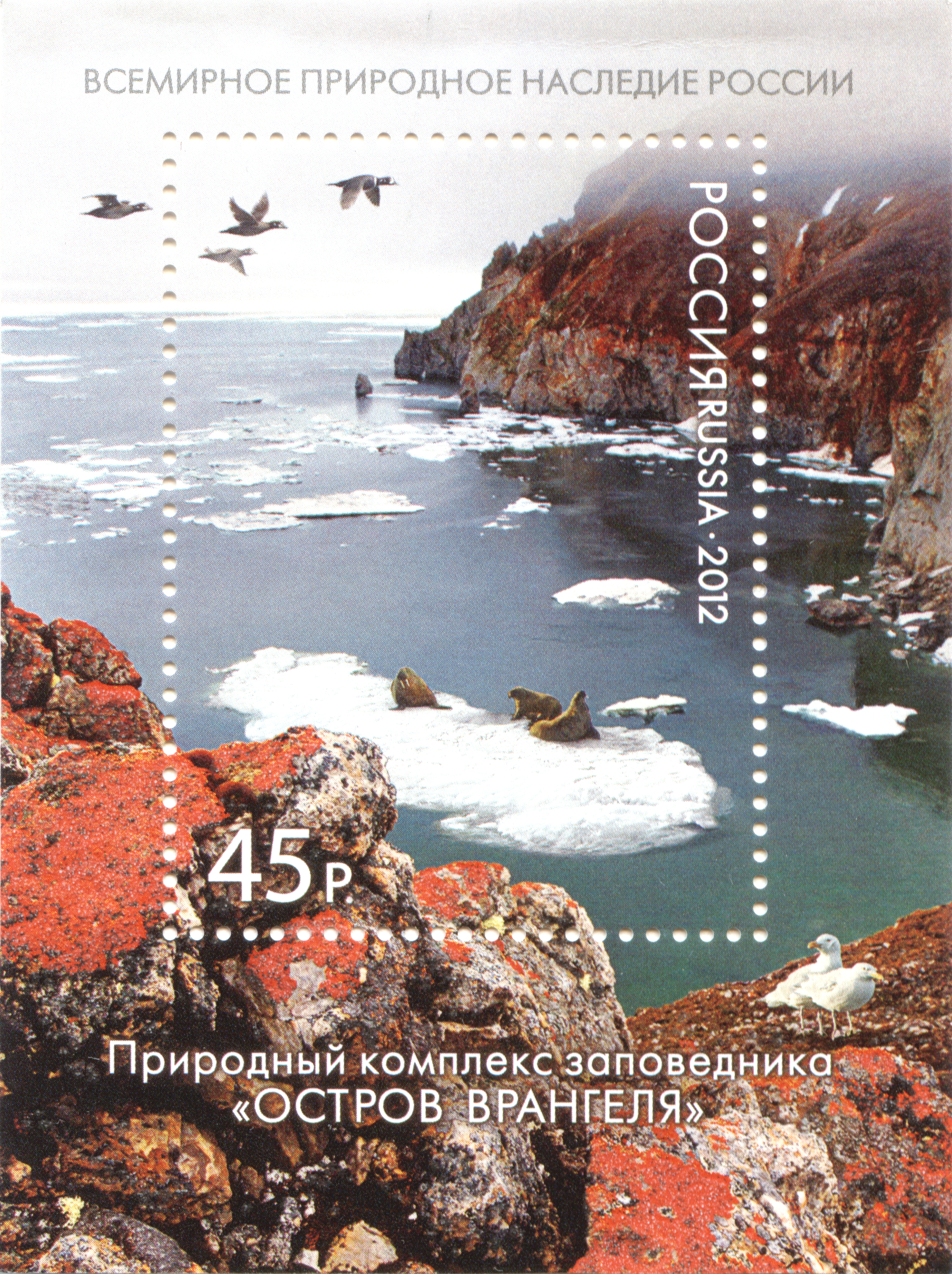 World nature heritage of Russia. The nature reserve "Wrangel Island". 2012.The stamp of Russia, 45.0 Rubles, 2012, PTC Marka Catalogue No 1563